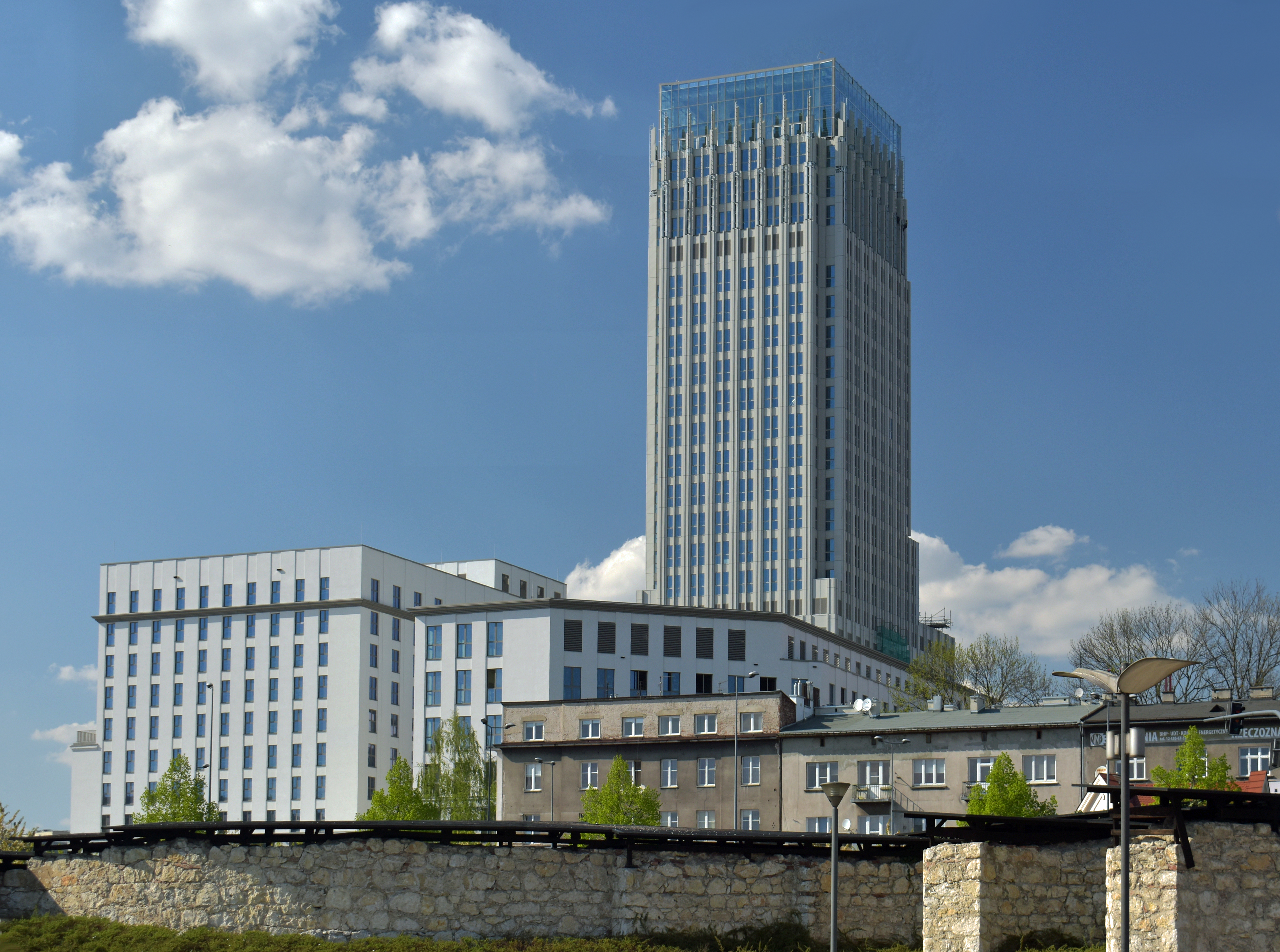 Unity Tower,, 2 Lubomirskiego street, Krakow, Poland